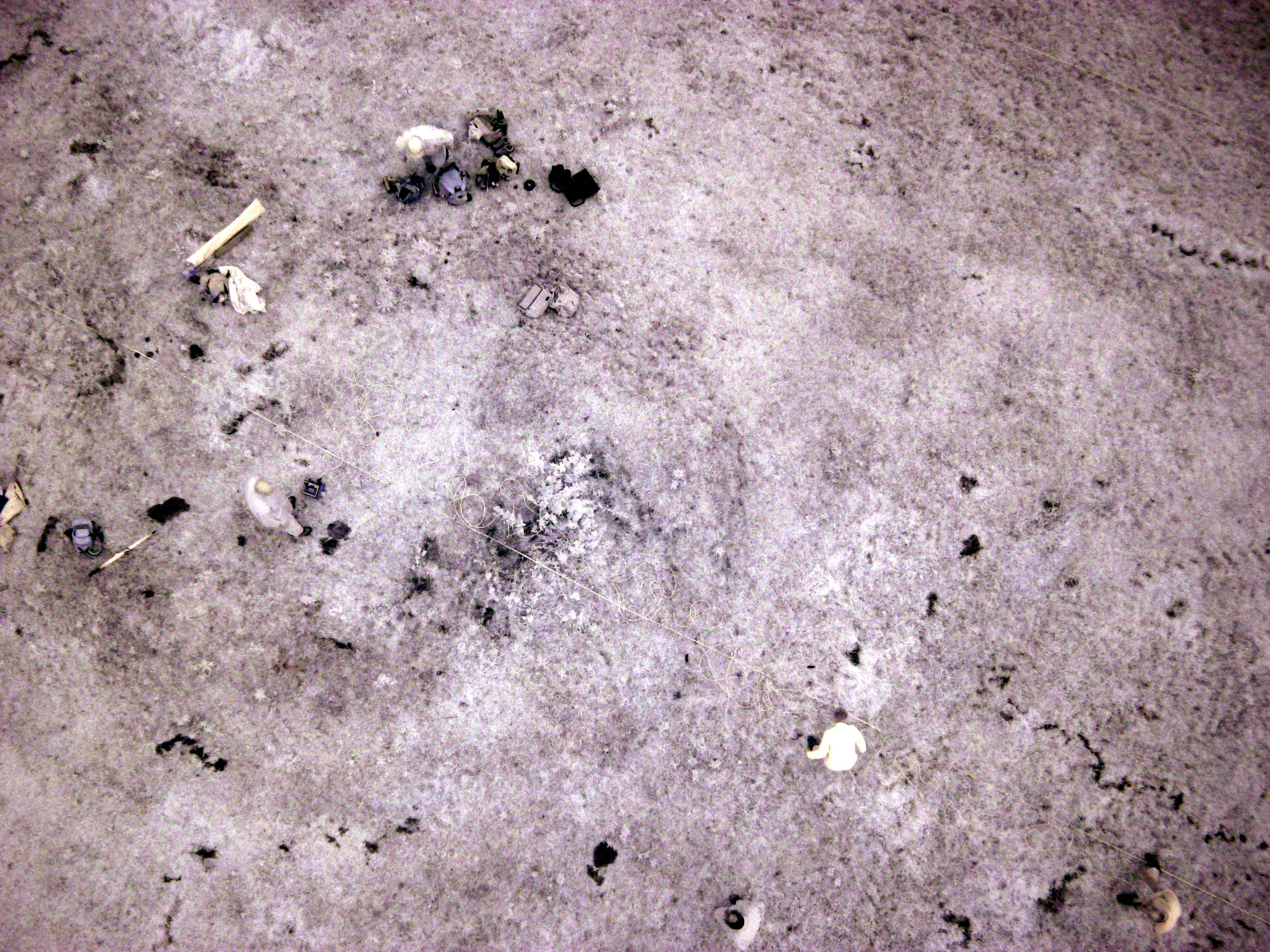 Near infra-red kite aerial photo of the site of Ogilface Castle, West Lothian. This image shows features not visible to the naked eye, including the tyre tracks on this short, grazed grass.